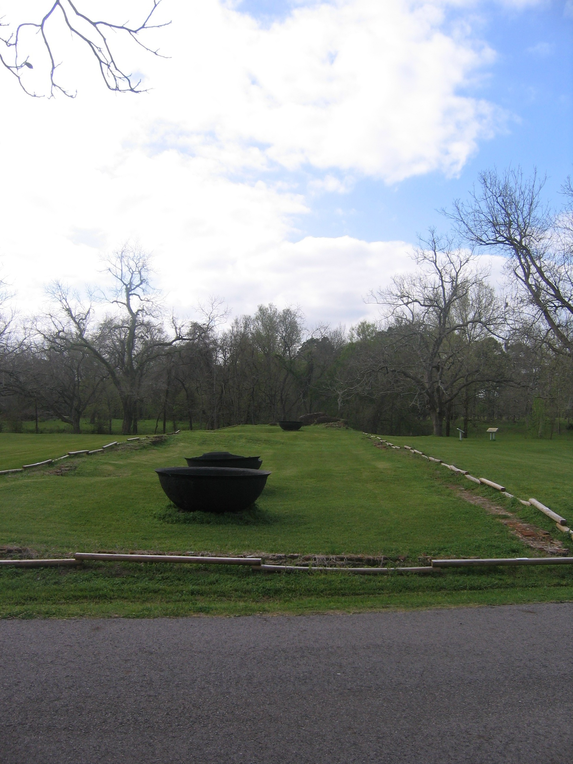 This is an image of the remains of the sugar mill on the Varner-Hogg Plantation State Historic Site in West Columbia, Texas. The sugar mill was destroyed in the Galveston Hurricane of 1900. Still remaining is the brick outline of the foundation and 3 of the cauldrons used to boil the sugarcane and extract sugar. I took this picture.